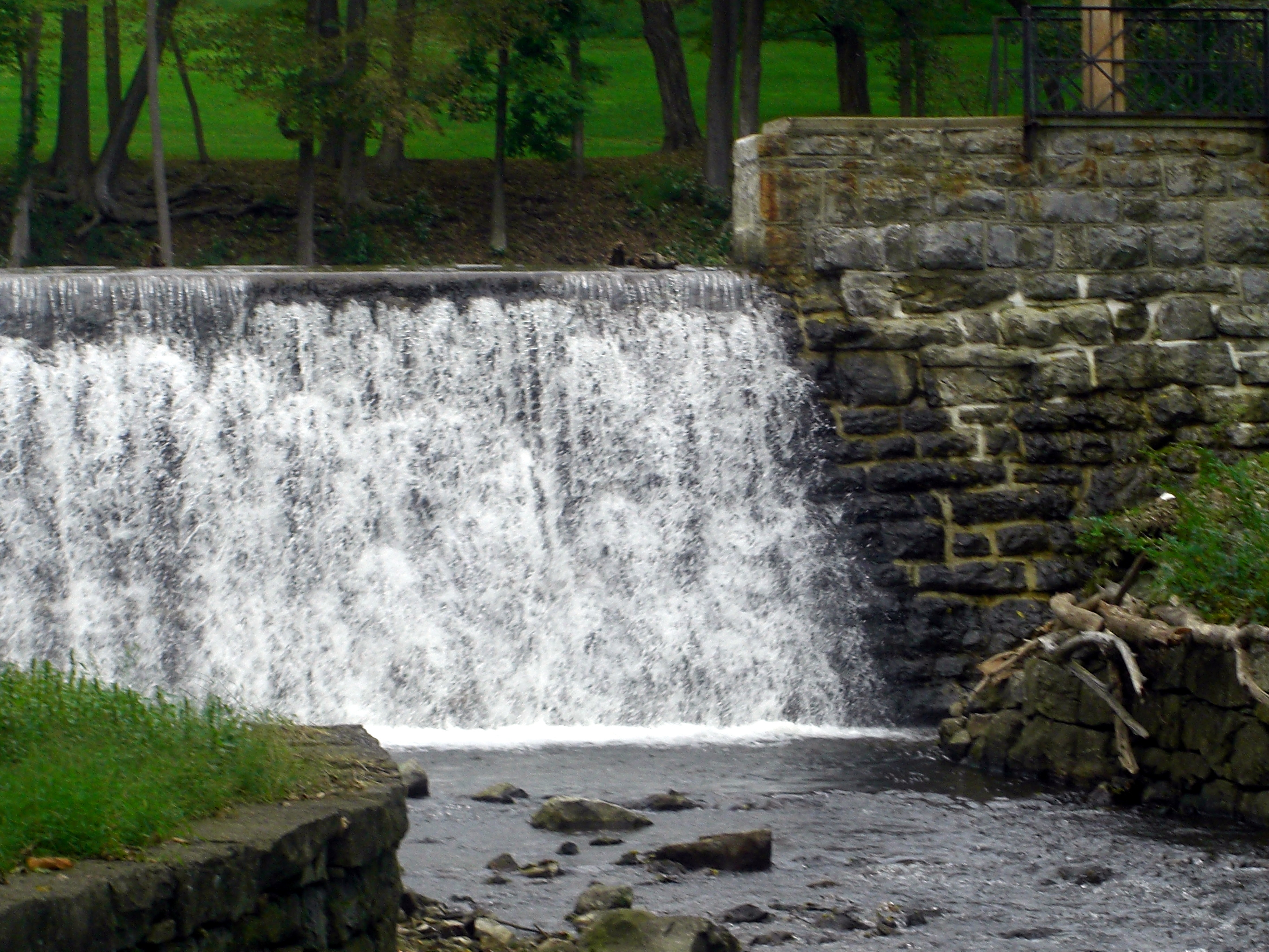 The Dam in Blairstown, Nj